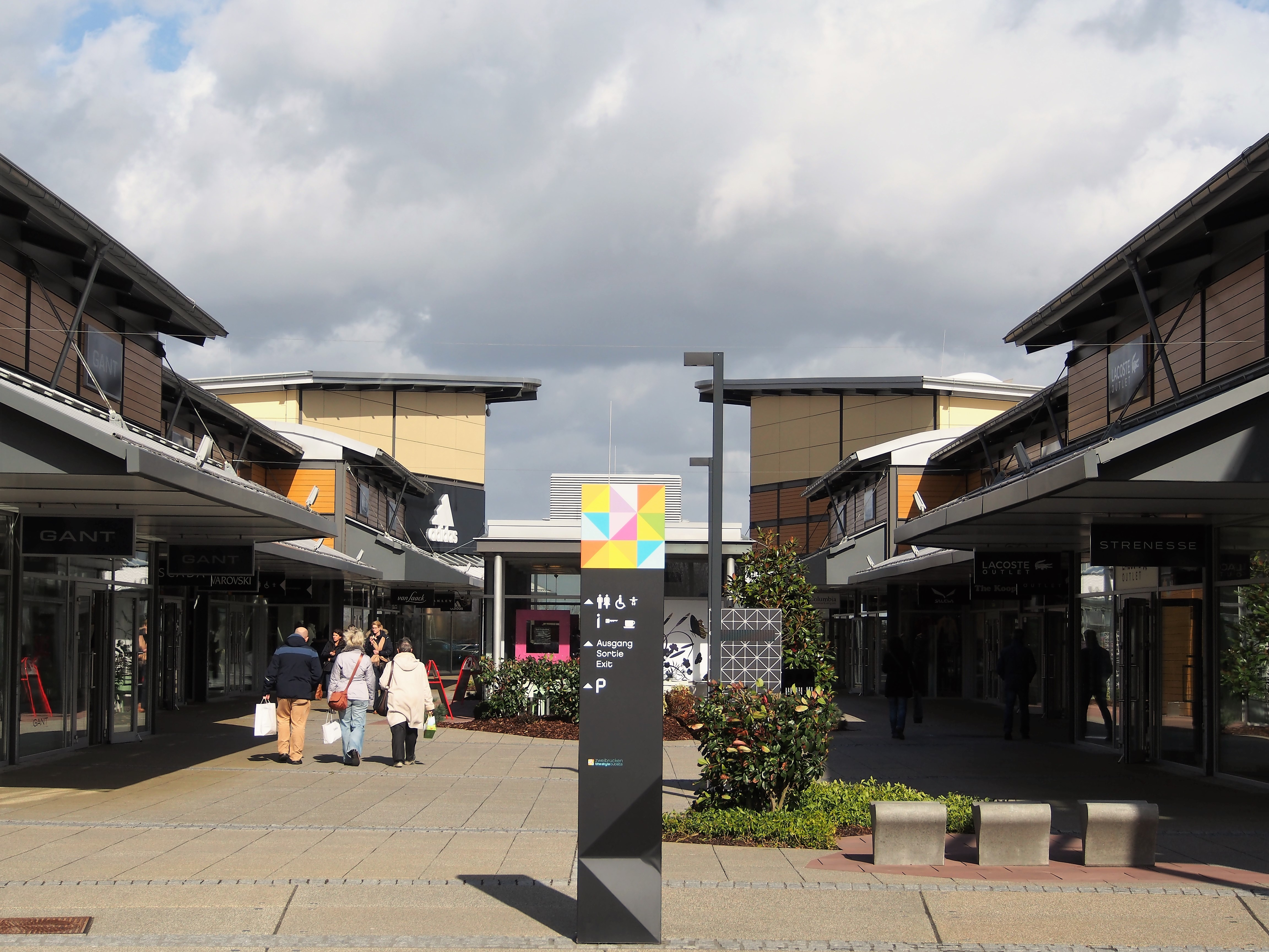 Photo's taken at Zweibrücken The Style Outlets.